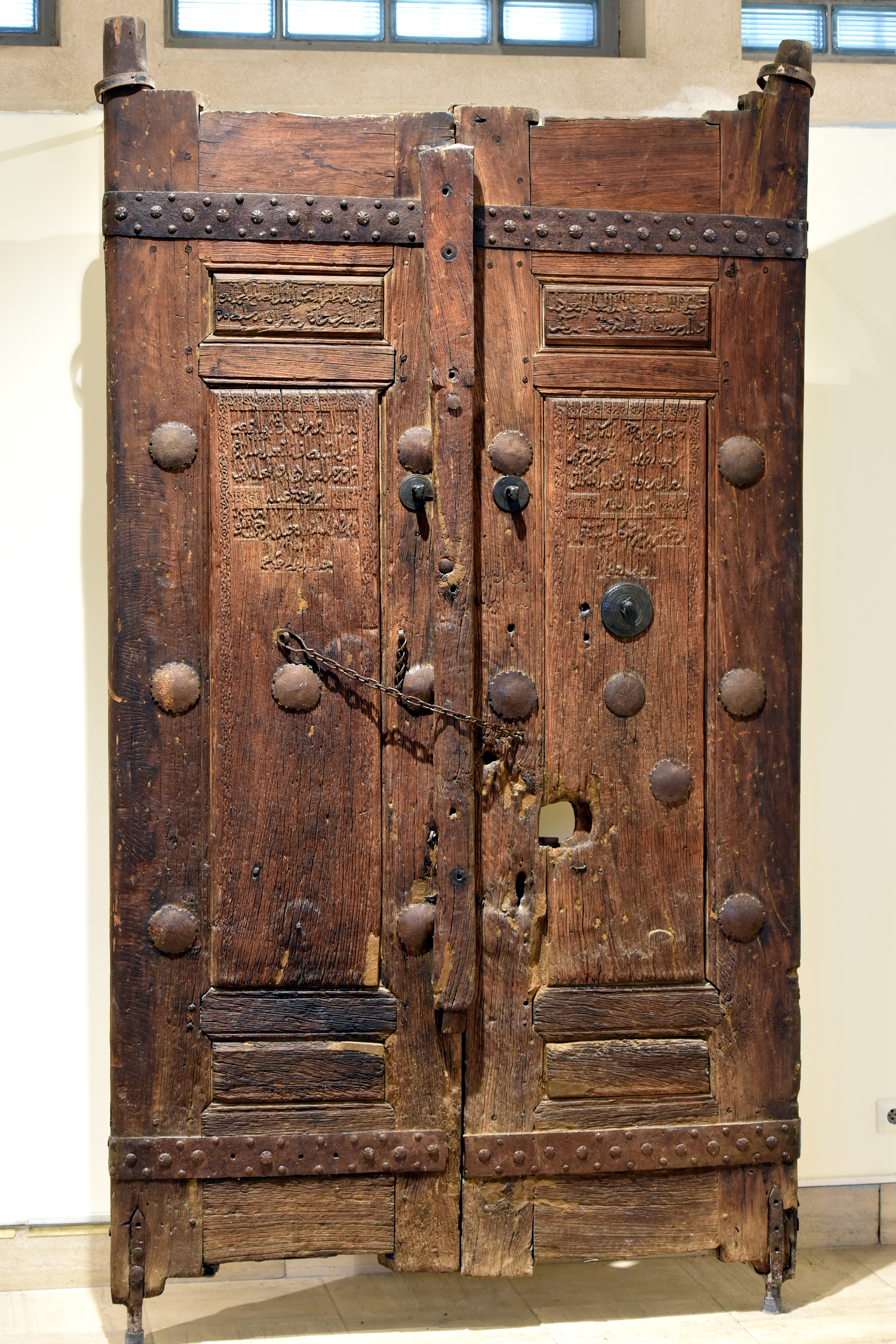 Wooden door of the Great Mosque of Amadiya, Iraq, 7th century AH (13th century CE). The door is inscribed with Naskh script, mentioning the name of "sultan Badr-addin Ibn Lulu Ibn Abdullah, the happy sultan, and the merciful king". On display at the Iraq Museum in Baghdad.